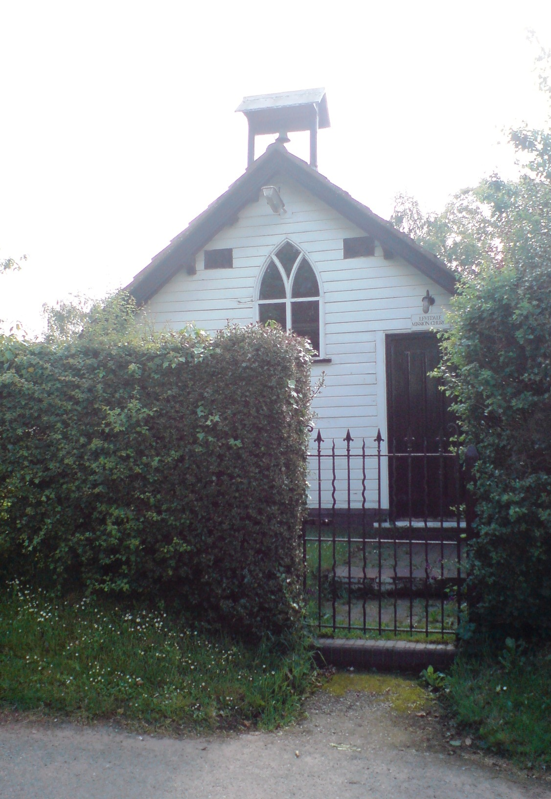 Levedale Mission Church, Staffordshire, seen from the west